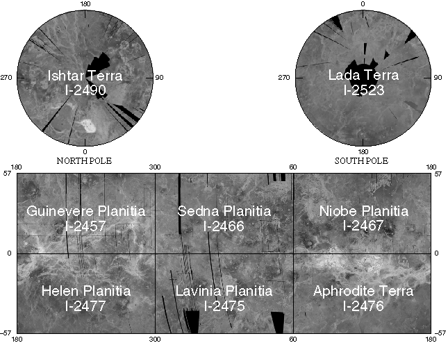 Map of Venus' 1:10 million-scale quadrangles